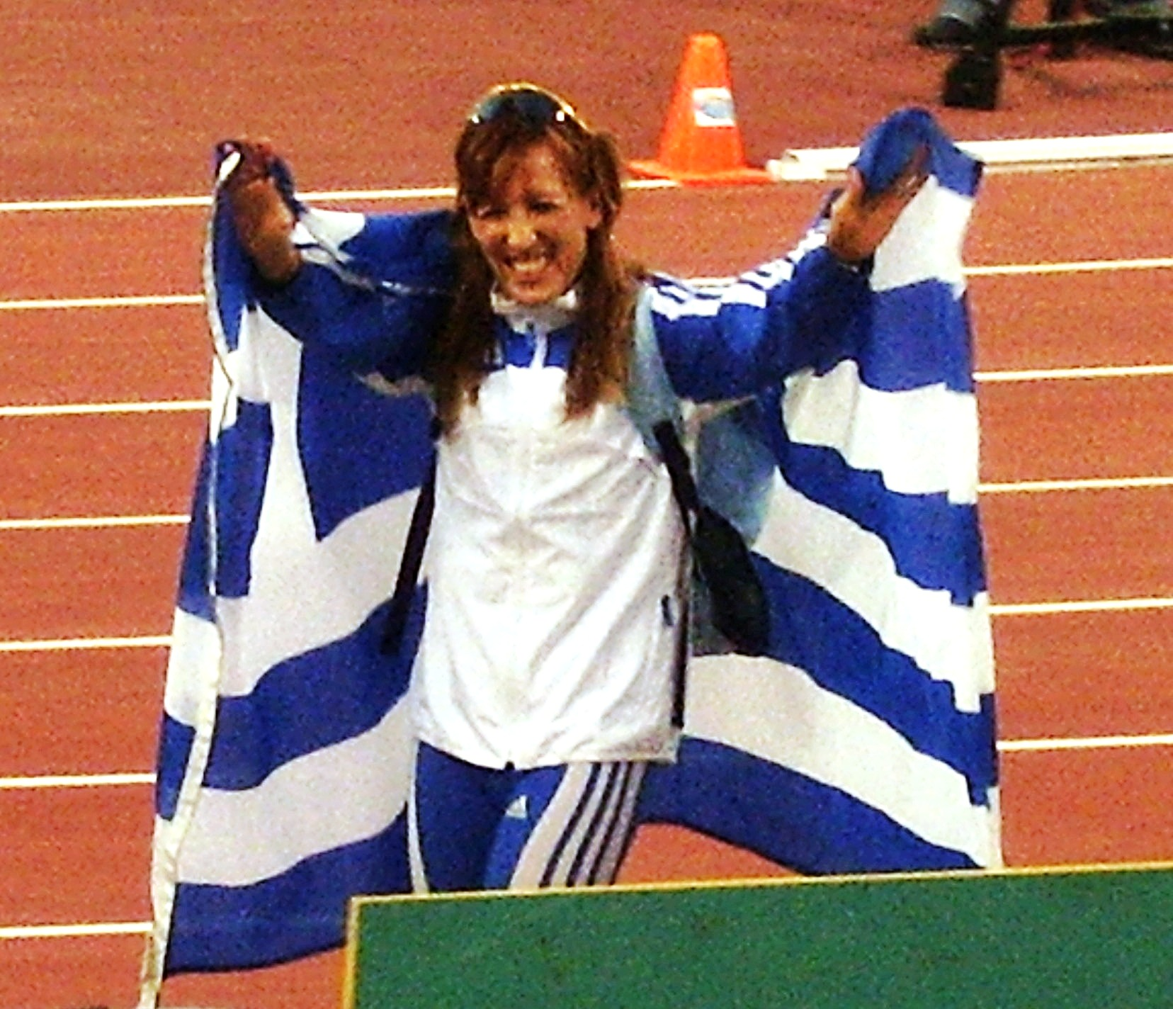 Hrysopiyi Devetzi - After her second place, with 15.04, in the 10th IAAF World Cup - Athens (Olympic Stadium) 16/09/06